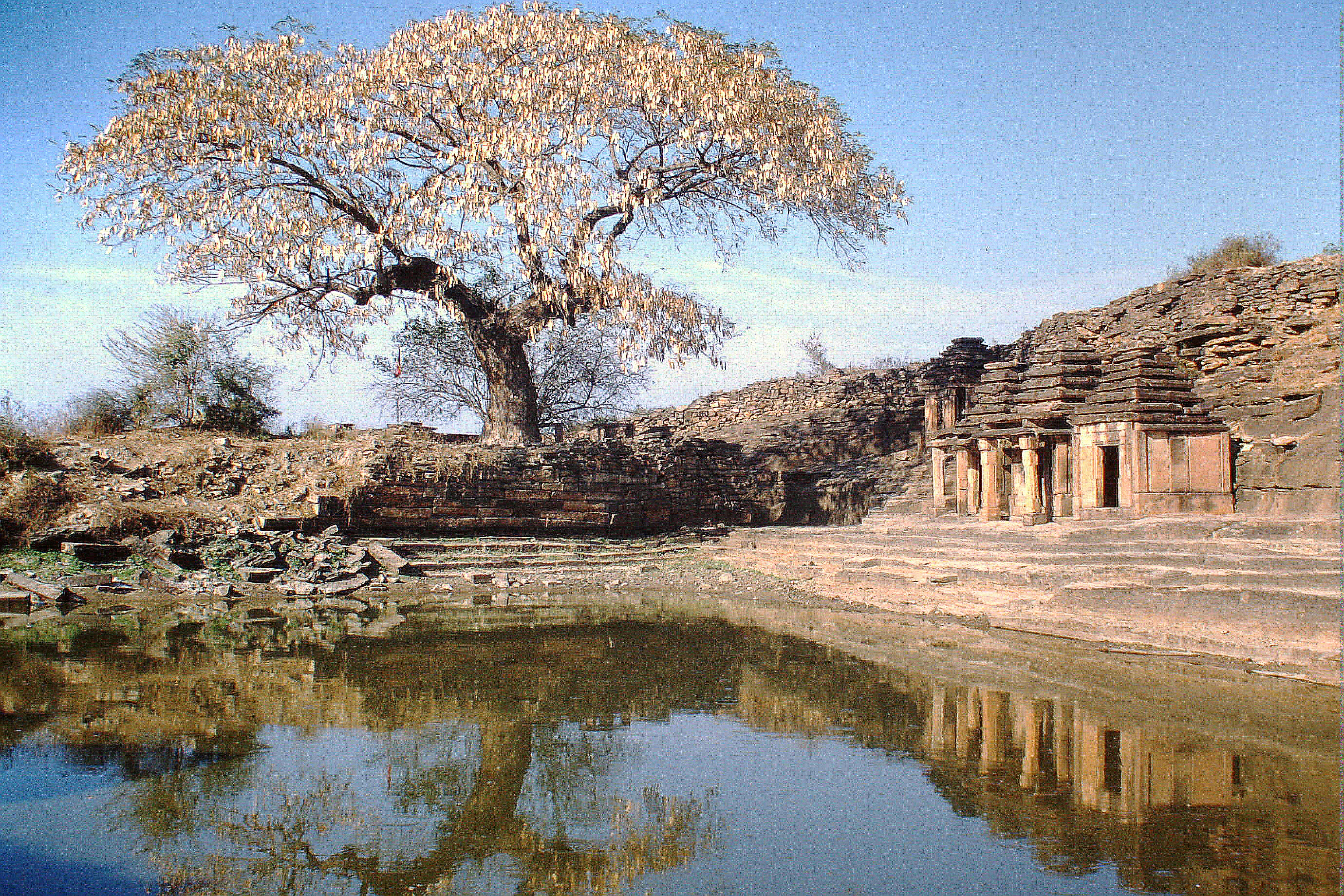 Naresar, temple at lake, no. 10-13